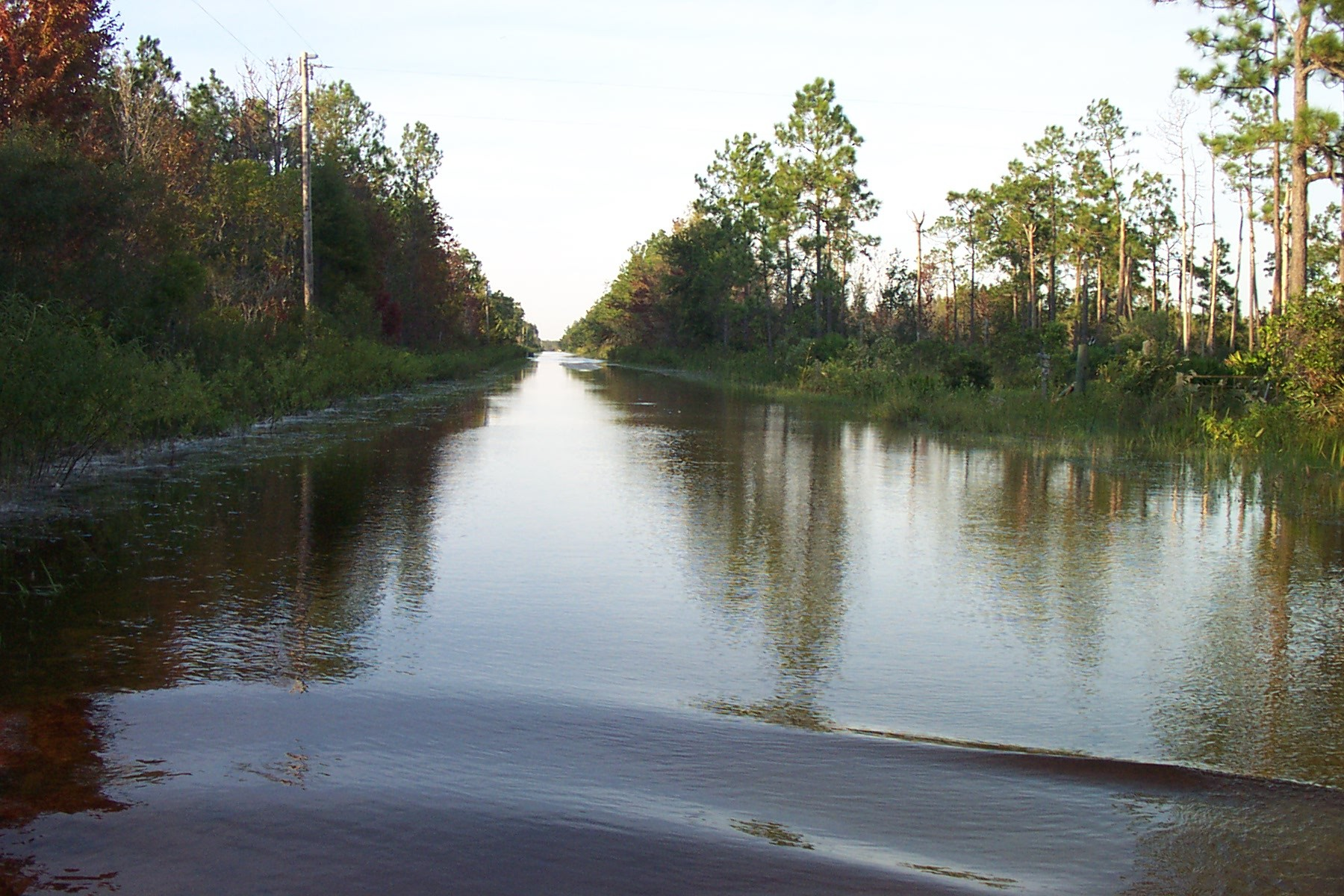 Photo of Crabgrass Road in Bull Creek Florida, under about three feet of water.